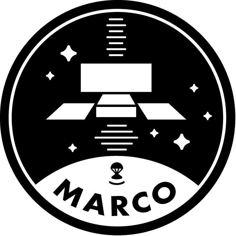 Mars Cube One Mission Patch